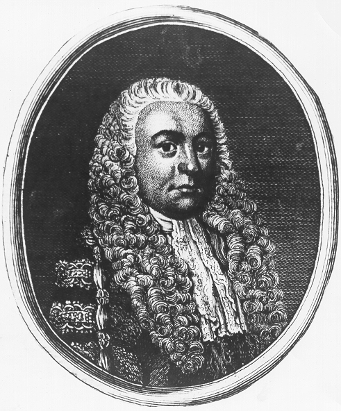 Portrait of Robert Hooke possibly from his book Micrographia. (This is probably not a portrait of Robert Hooke, see Talk:Robert_Hooke#Hooke_picture.3F and below)